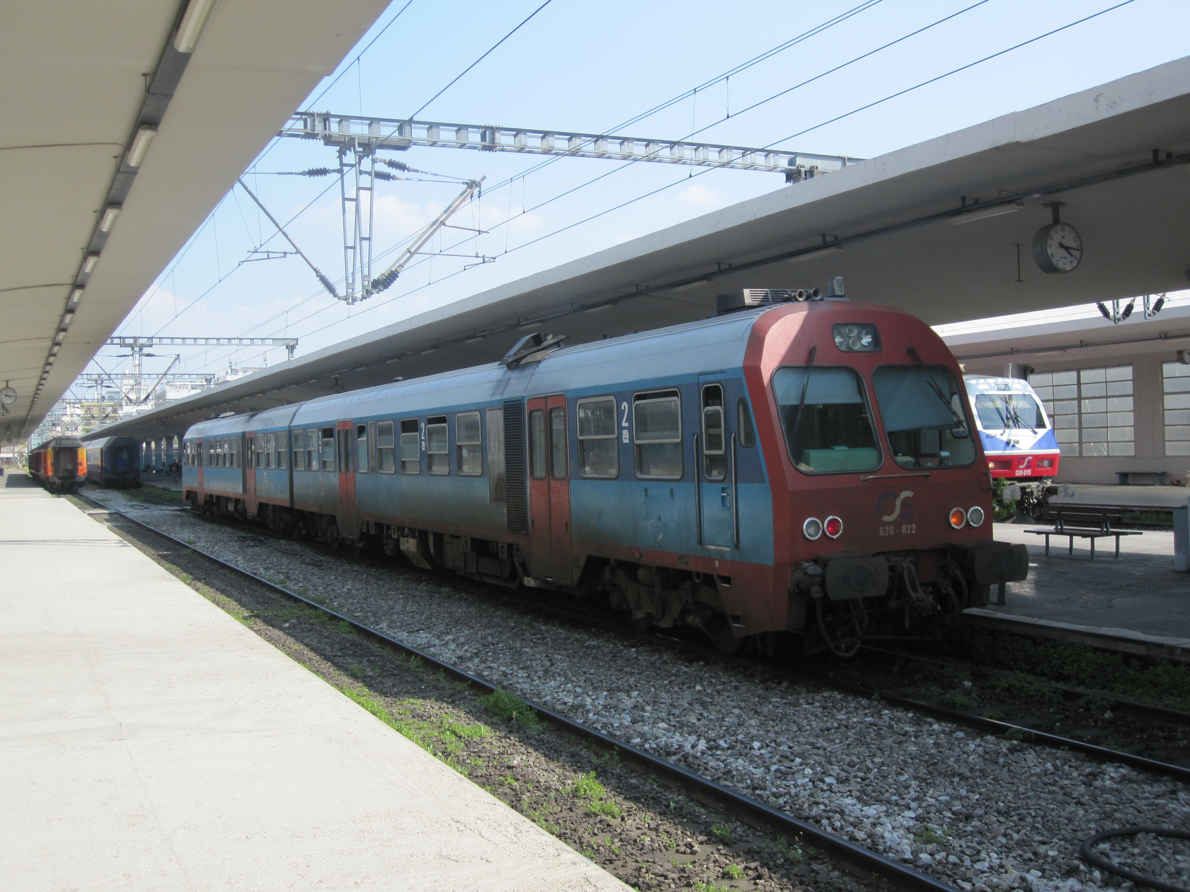 DMU series used for local services from Thessaloníki.